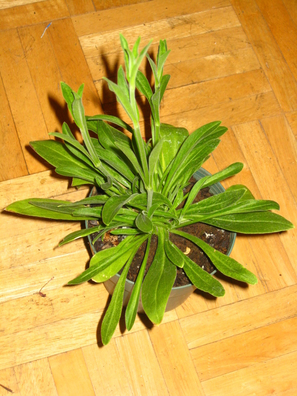 Silene capensis growing in a small pot